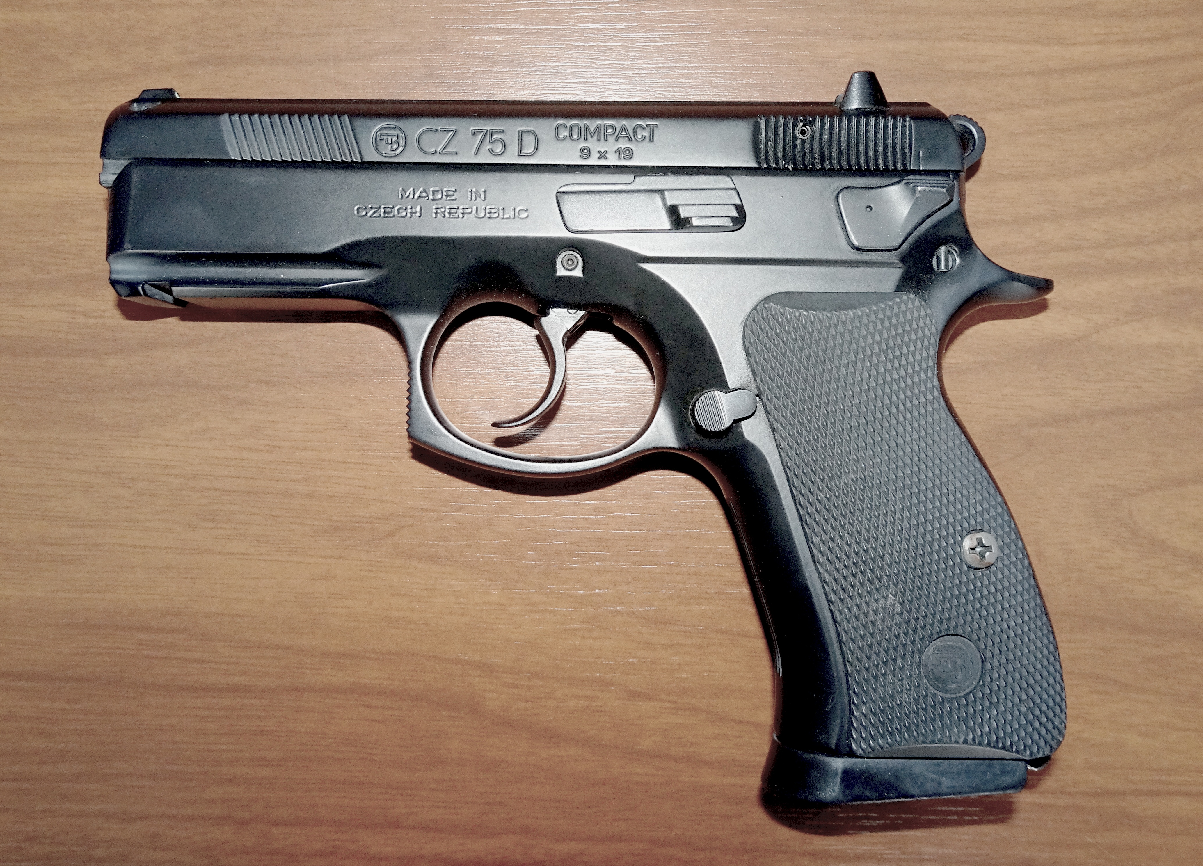 pistol CZ75D Compact